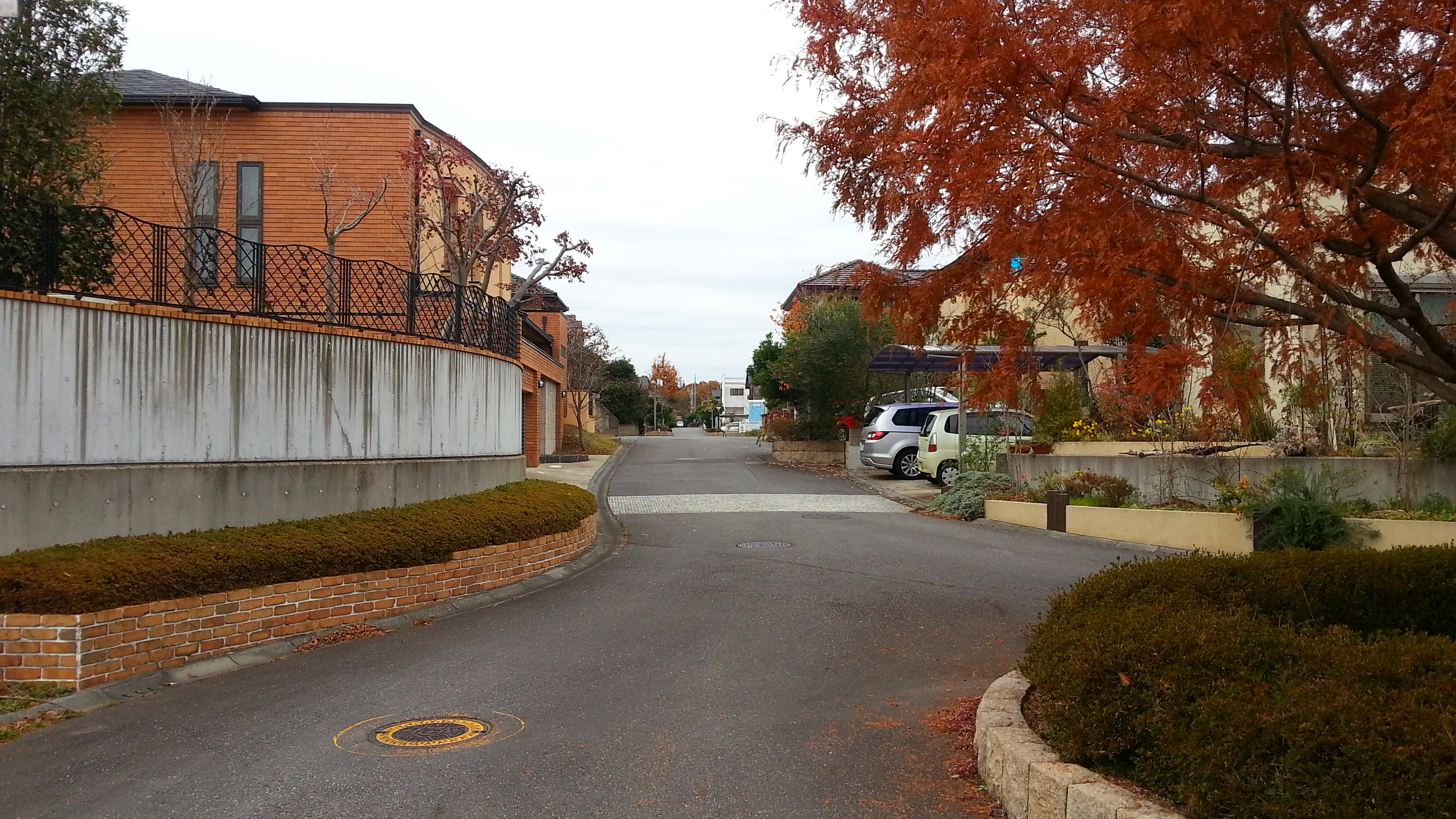 Nagakuni dai Tsuchiura